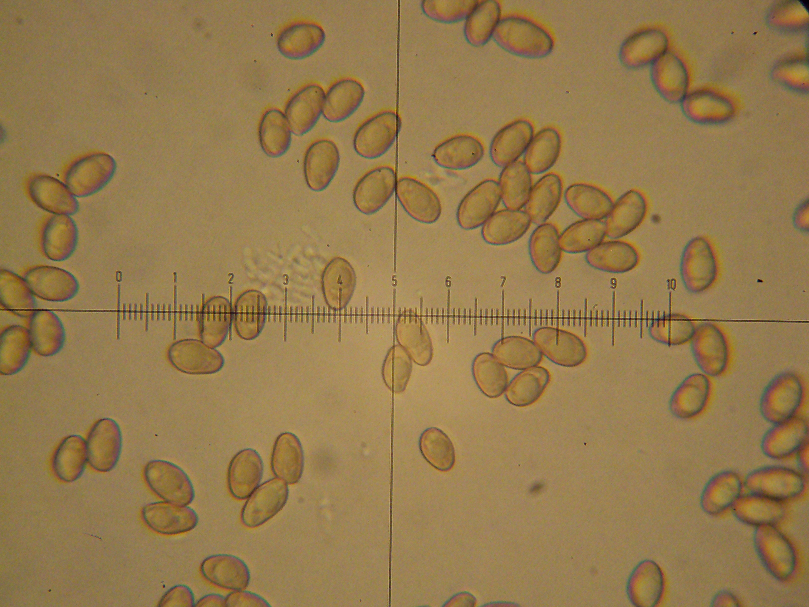 Spores of the basidiomycete fungus Paxillus involutus (Batsch) Fr.